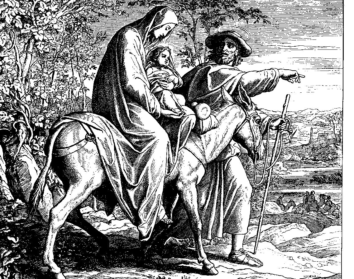 Woodcut for "Die Bibel in Bildern", 1860.